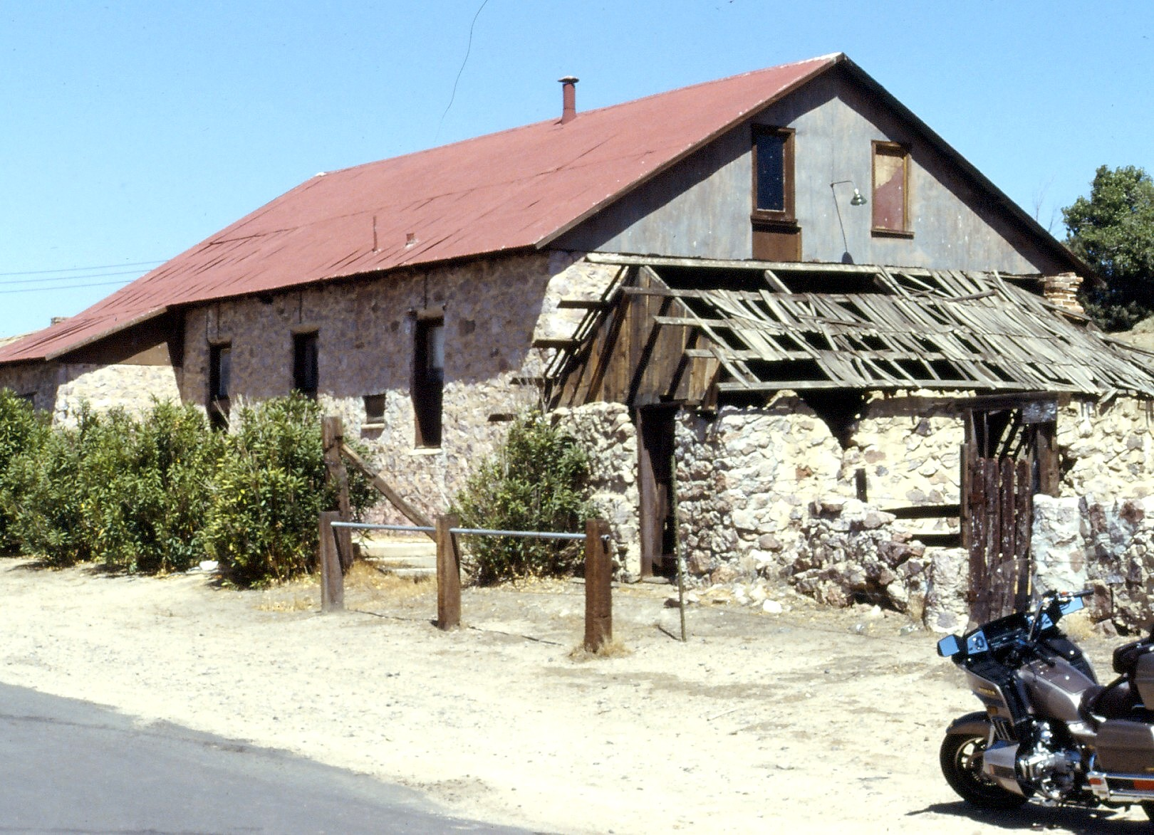 (1 in a multiple picture set) This building appeared t be a warehouse of some sort. As you can see it was made of native rock and was still in fairly good shape. I wonder what it was used for. There is no agriculture in this desert location